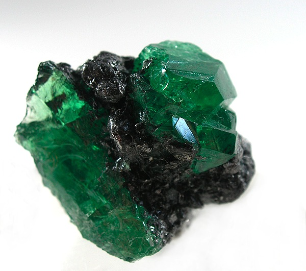 Grossular (Var.: Tsavorite), Graphite Locality: Merelani Hills (Mererani), Lelatema Mts, Arusha Region, Tanzania (Locality at ) A gorgeous specimen with among the deepest green color I have ever seen in tsavorite. The piece features a crystal measuring almost 1 cm, perched atop contrasting graphite matrix. There is also rich tsavorite at the bottom of the piece, for added color bonus. The major crystal is slightly contacted on the back side and missing only one minor face , also on the back. It really displays well and is a piece with more visual impact than its size might indicate. the association on matrix is VERY rare! 2.2 x 2.1 x 1.4 cm